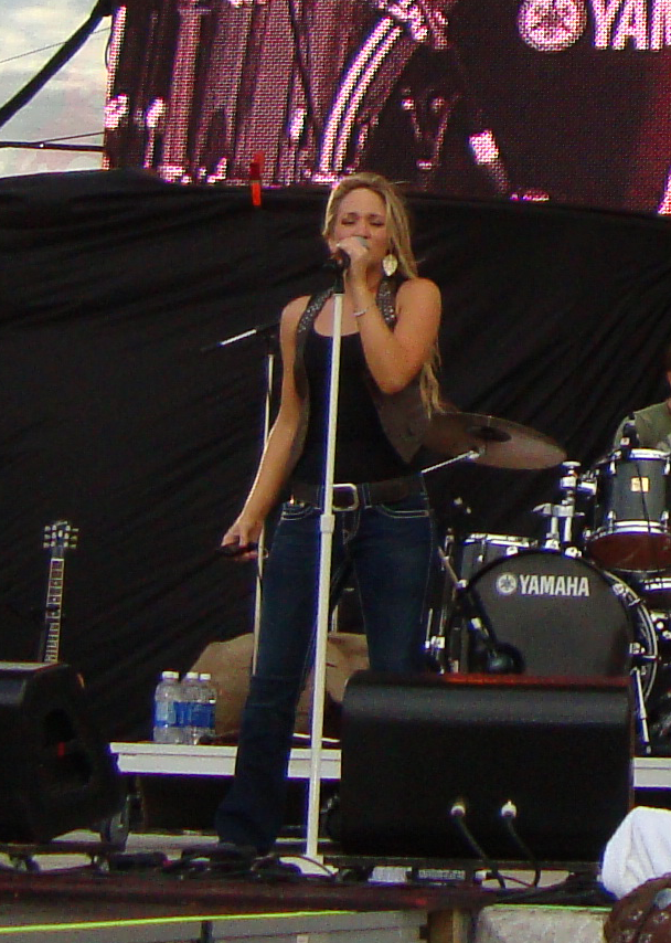 Tara Oram performing on July 10, 2010 at the Cavendish Beach Music Festival in Cavendish, Prince Edward Island, Canada.